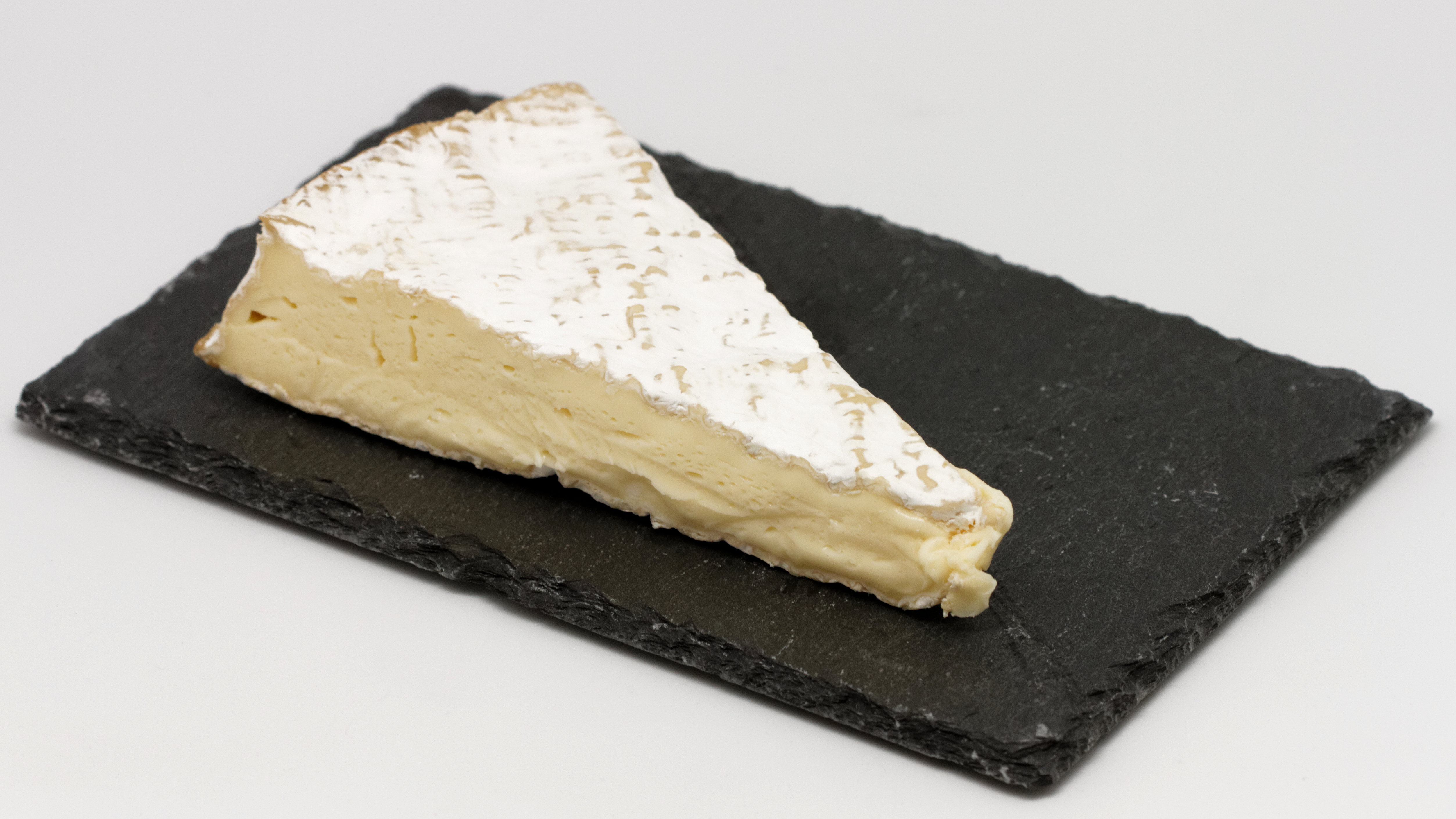 Brie de Meaux (cow's milk cheese)